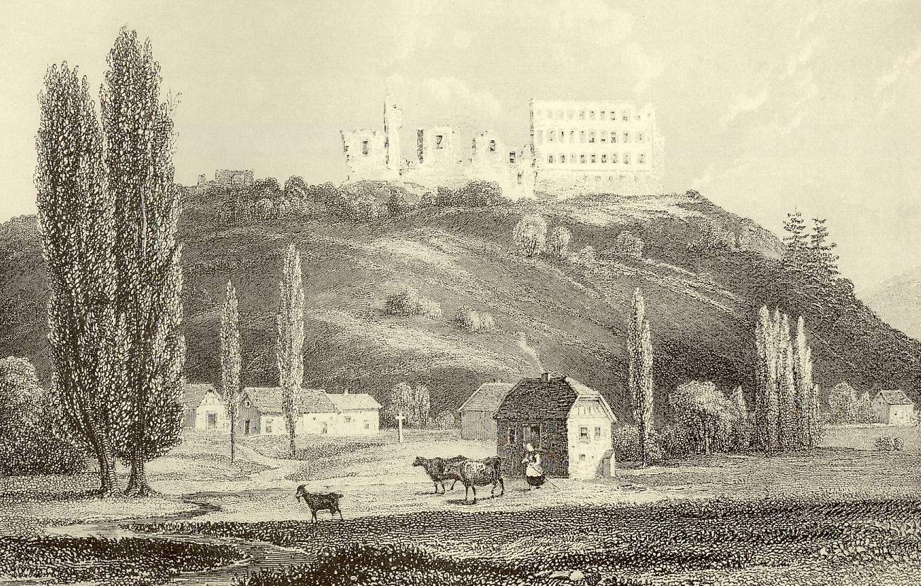 historical sight of the German town of Leiningen by Verhas, Winkles and Frommel